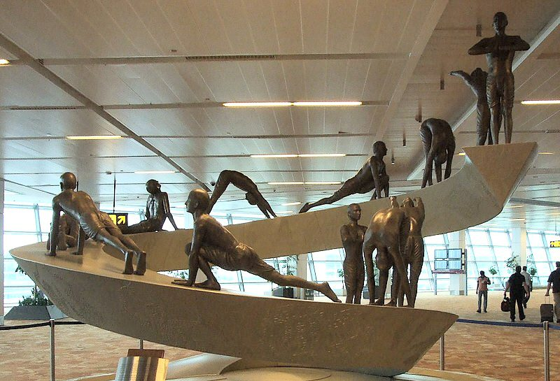 Sculpture depicting 12 asanas of the Surya Namaskar at Terminal T3 at IGIA Airport, New Delhi, India, Design , Landor/Incubis Consultants, delhi, execution Ayush Kasliwal design Pvt. Ltd, human figures sculpted by Nikhil Bhandari.